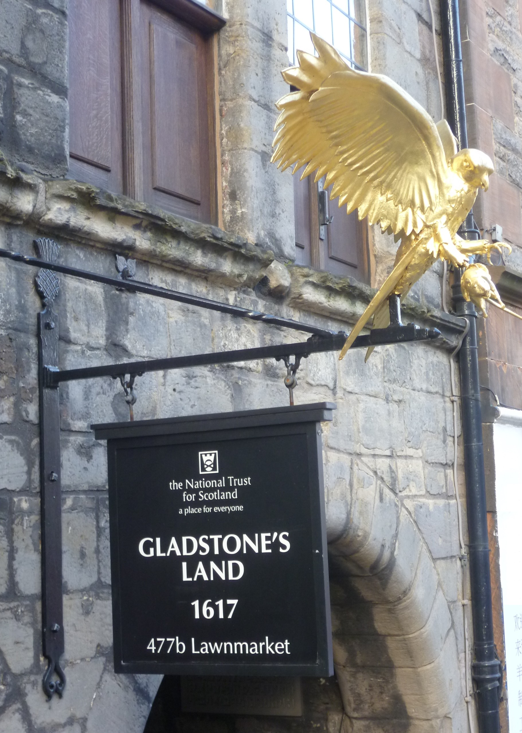 Entrance sign, Gladstone's Land, Lawnmarket, Edinburgh